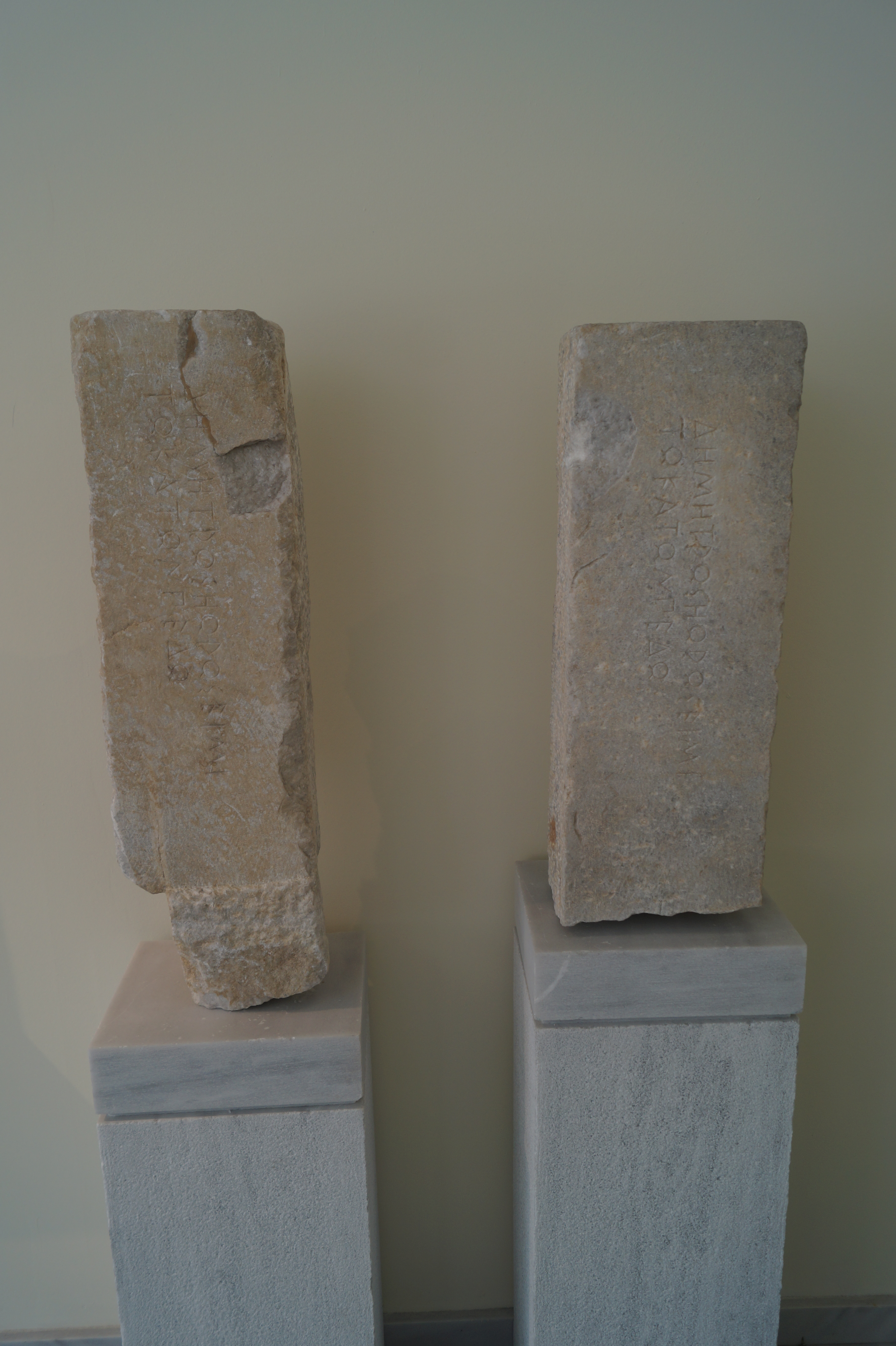 Kavala, Makedonia, Greece: Archaeological Museum of Kavala: Two marble boundaries of the Demeter temple (510-490 BC)